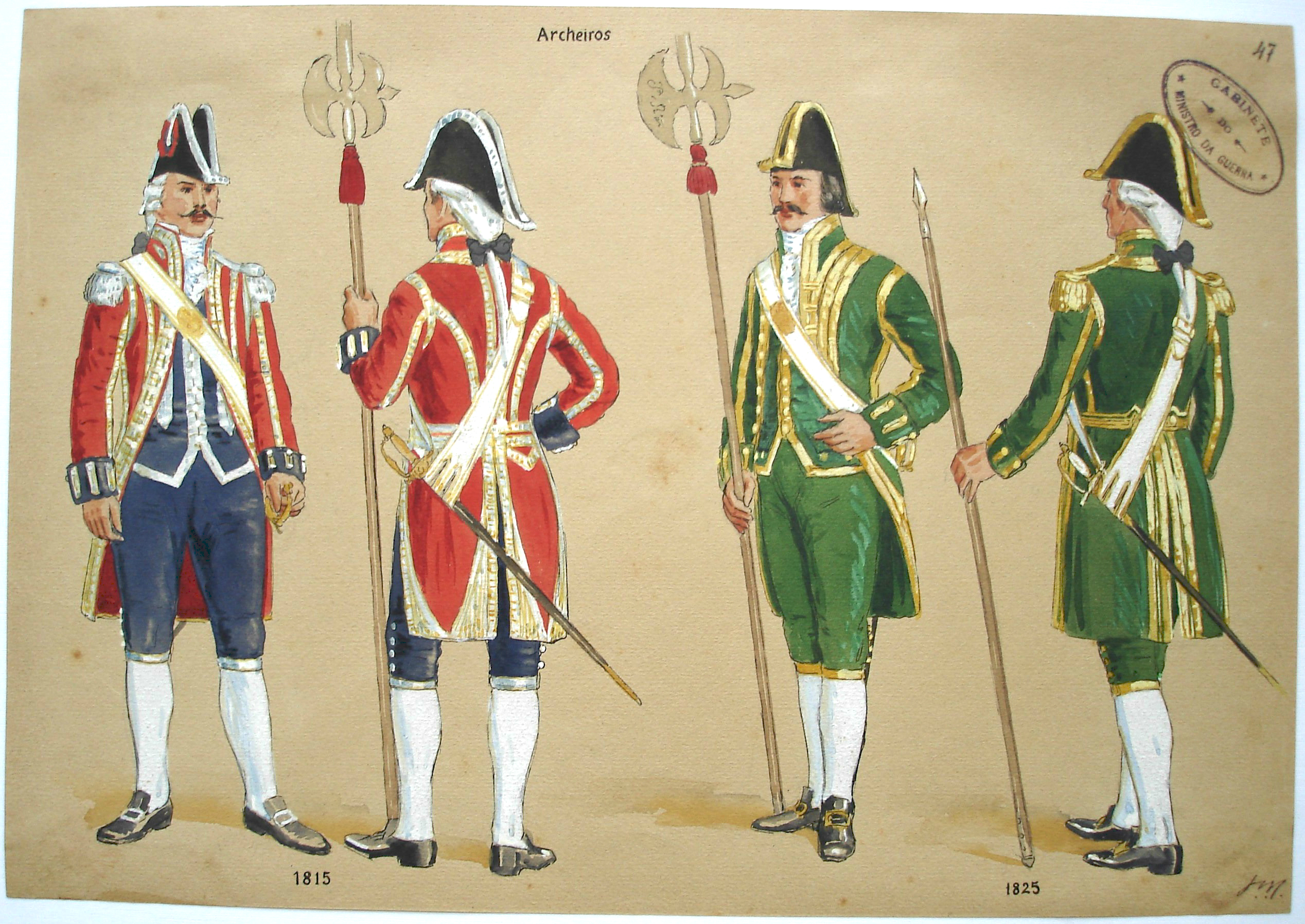 Captain (commander) (first from left to right) and soldier (second from left to right) of the Portuguese Guarda Real dos Archeiros (Royal Guard of Halberdiers) as they appeared in 1815. Soldier (third from left to right) and captain (commander) (fourth from left to right) of the Guarda Imperial de Archeiros (Imperial Guard of Halberdiers), successor in Brazil of the Guarda Real dos Archeiros, as they appeared in 1822.